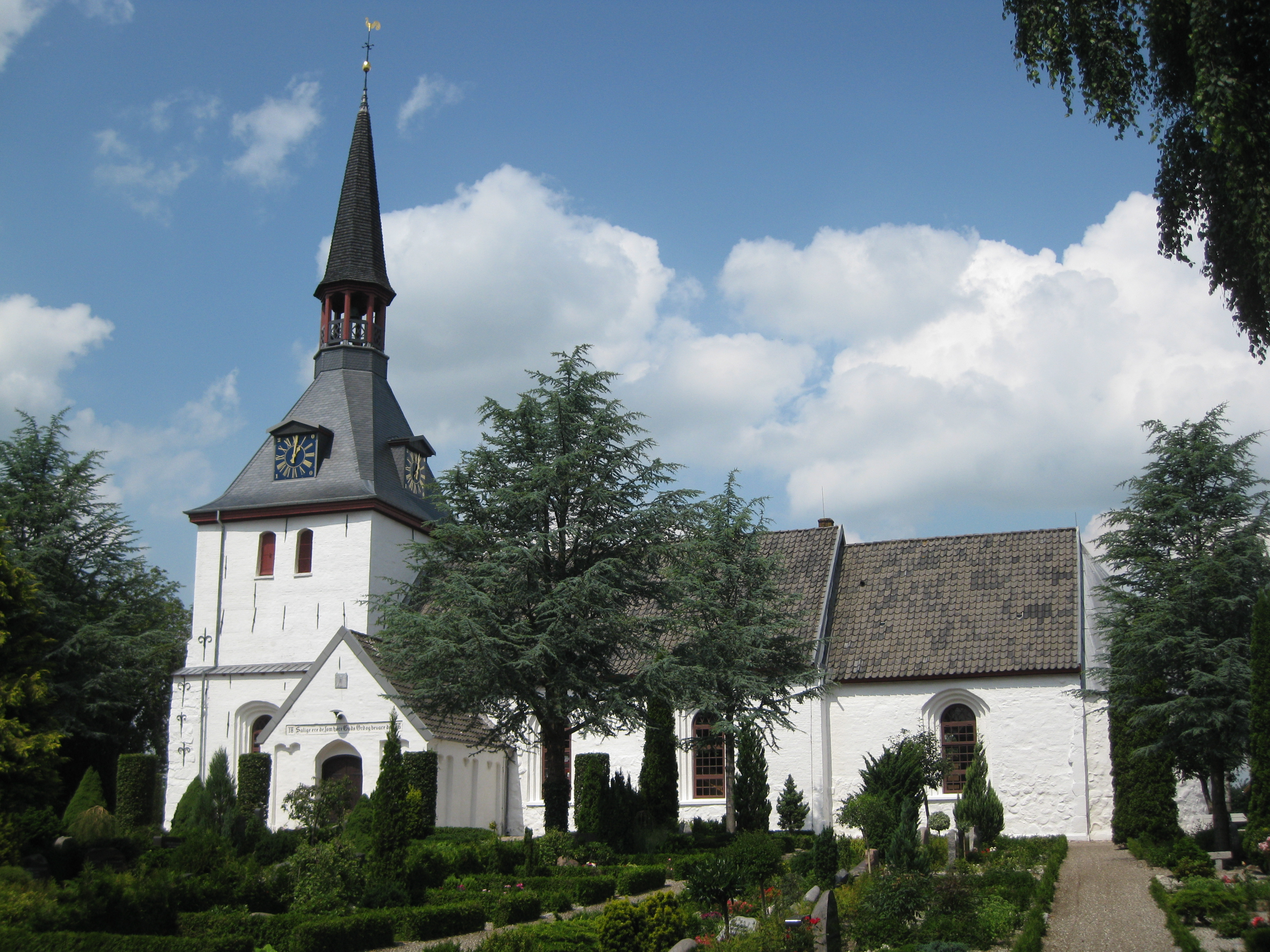 The church "Tinglev Kirke" in the small town "Tinglev". The town is located in Southern Jutland (in south Denmark).